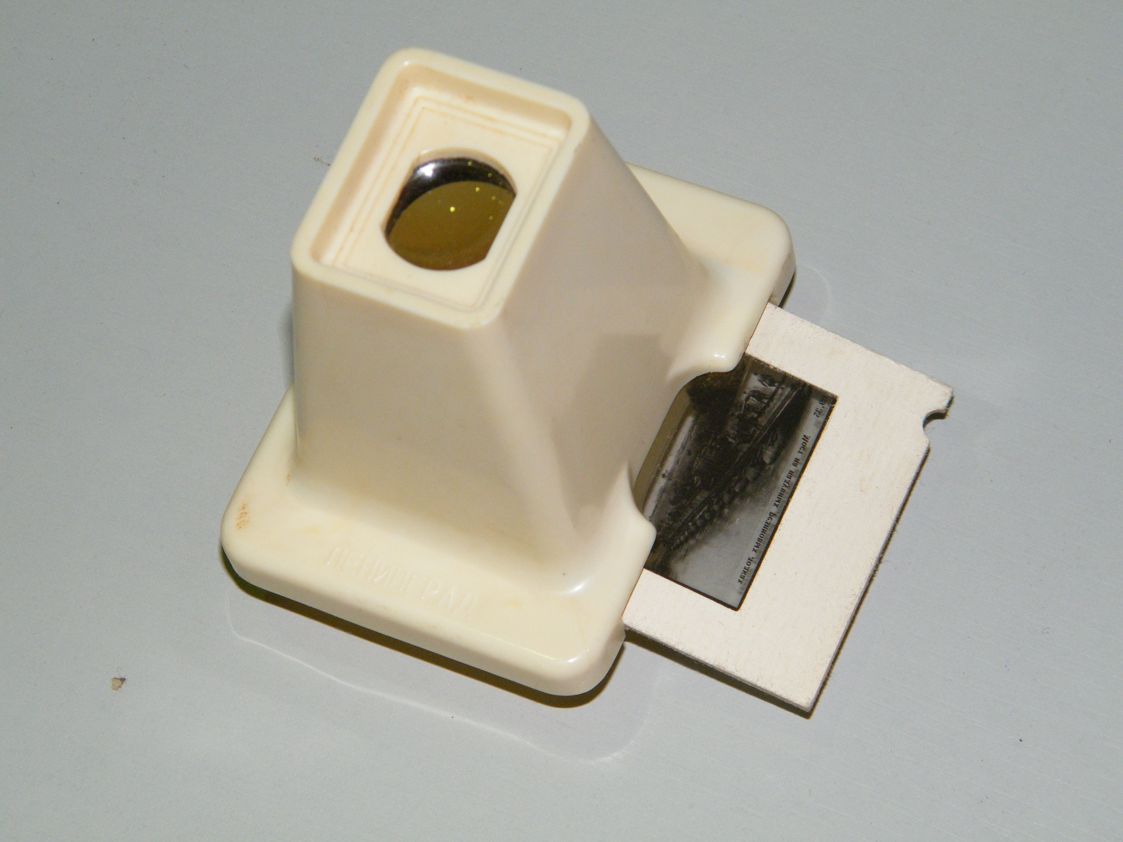 Slide viewer